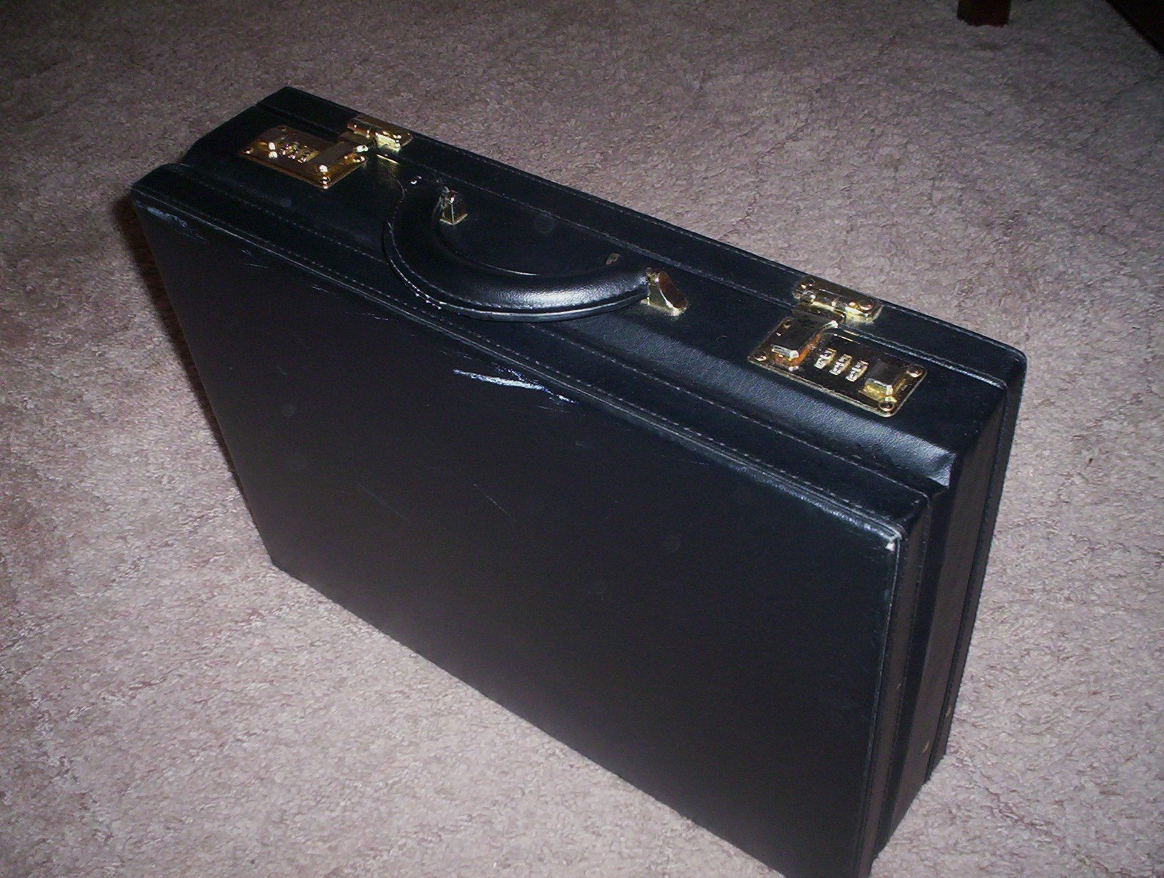 Briefcase photo taken from EnWikipedia.